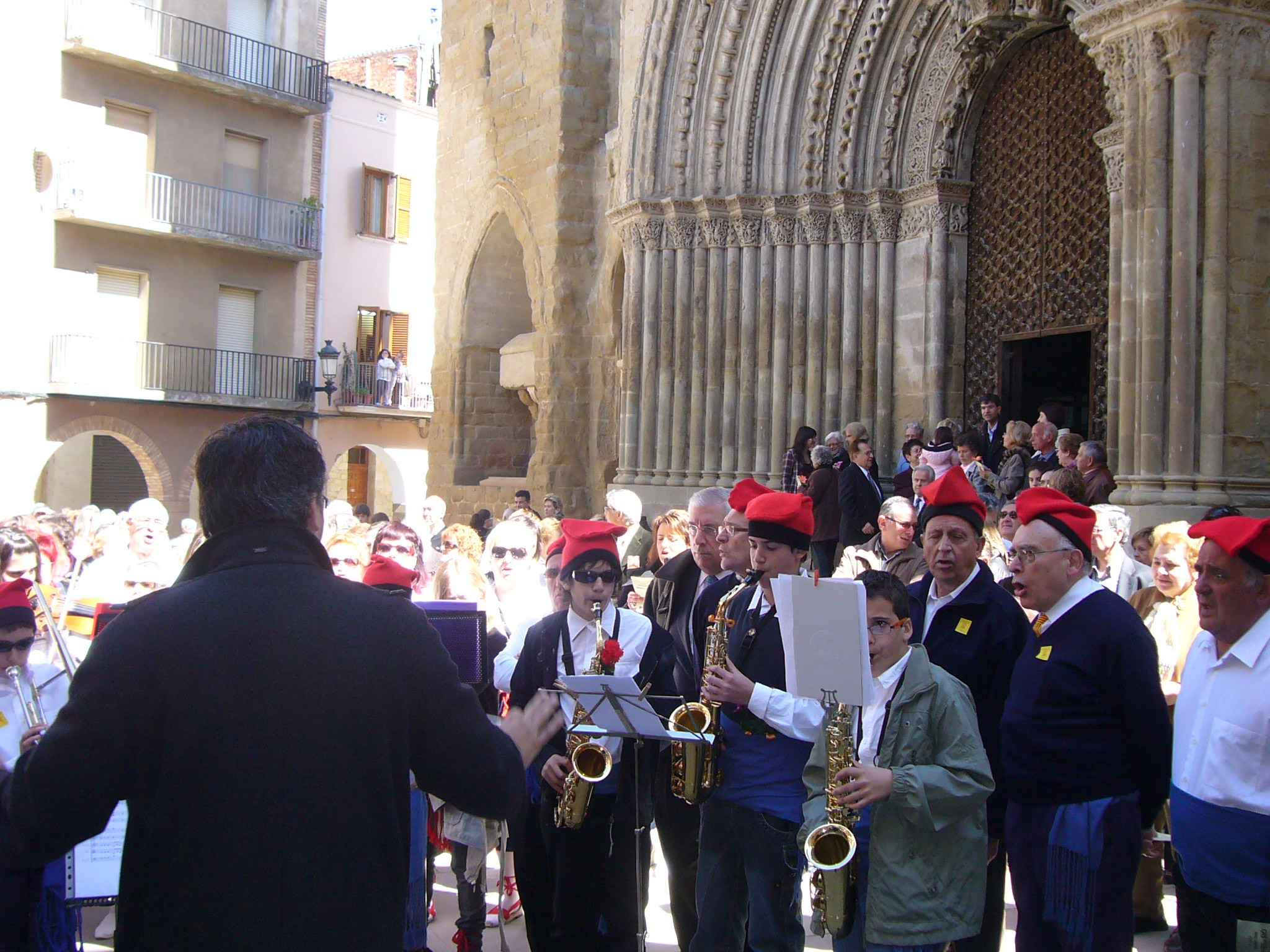 Caramelles in Agramunt church of Santa Maria - 2010